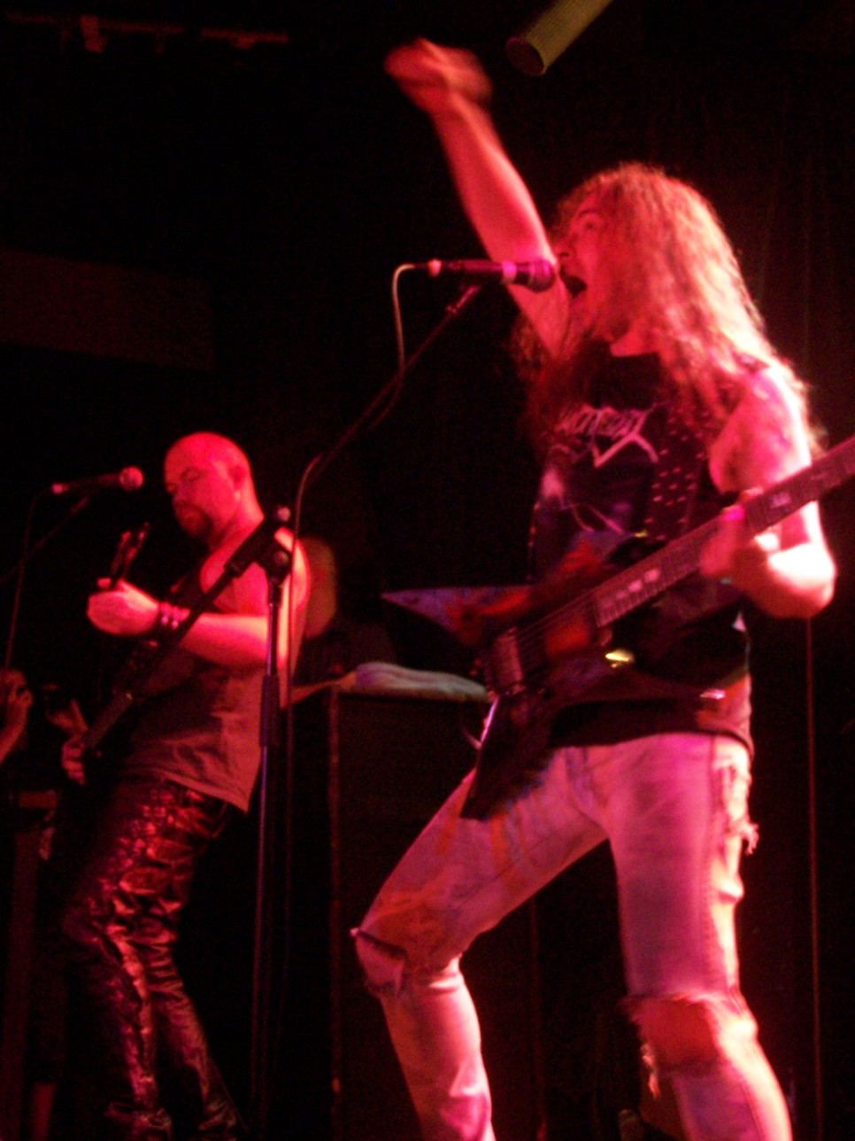 Brian Fischer-Giffin (author)